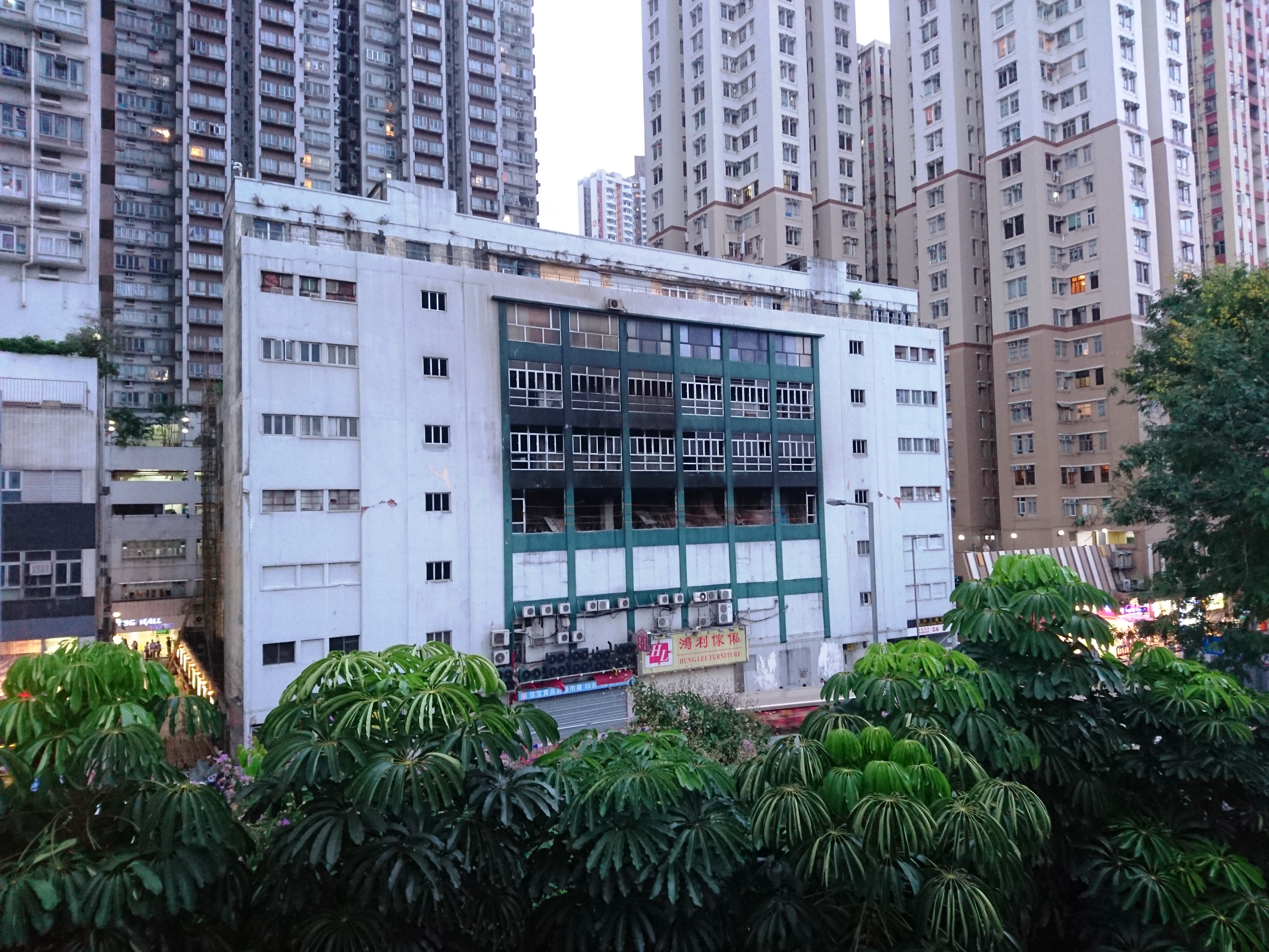 Far view of Amoycan Industrial Centre in July 2016